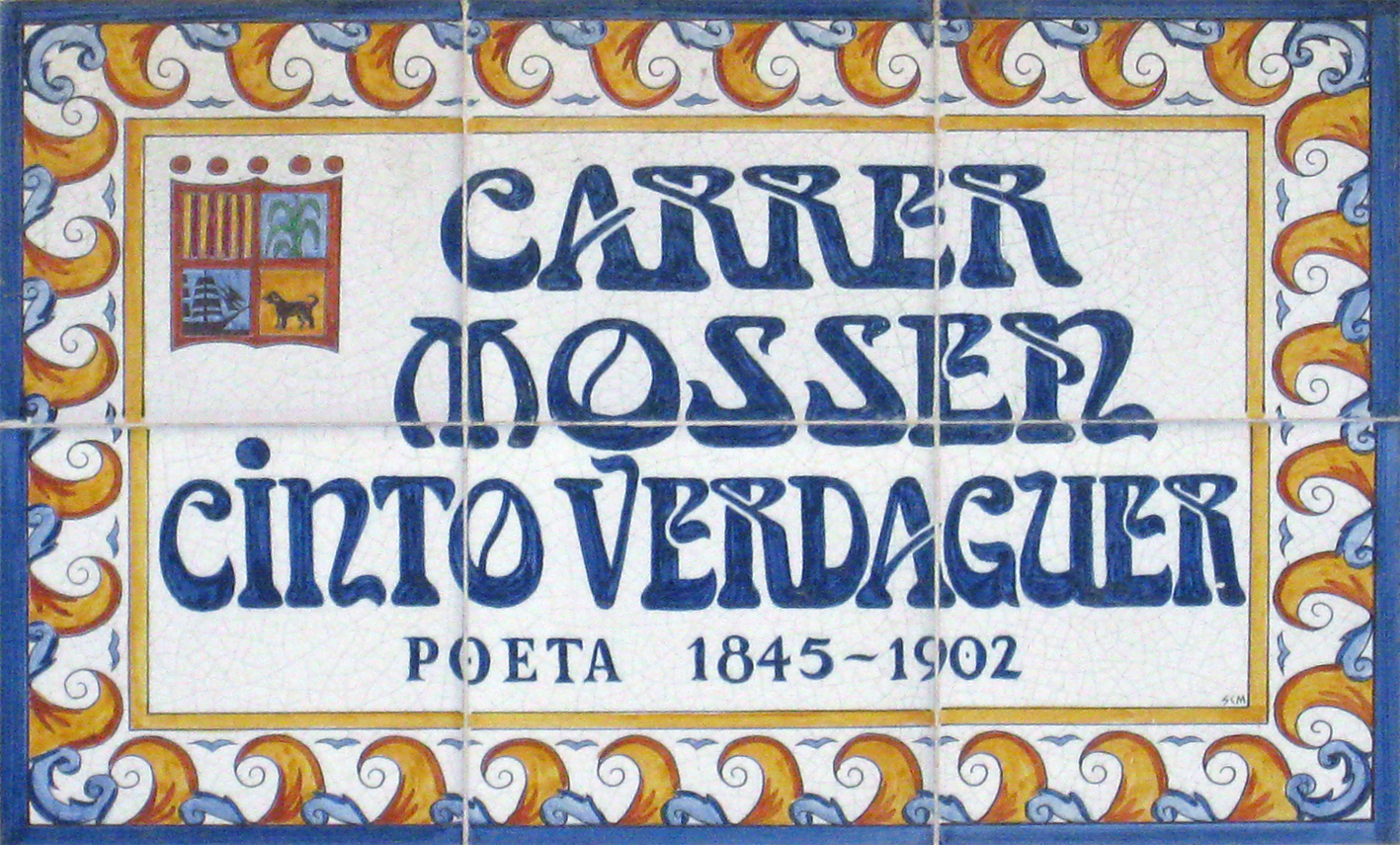 Street sign Carrer Mossen Cinto Verdaguer in Canet de Mar, Catalonia (Spain).